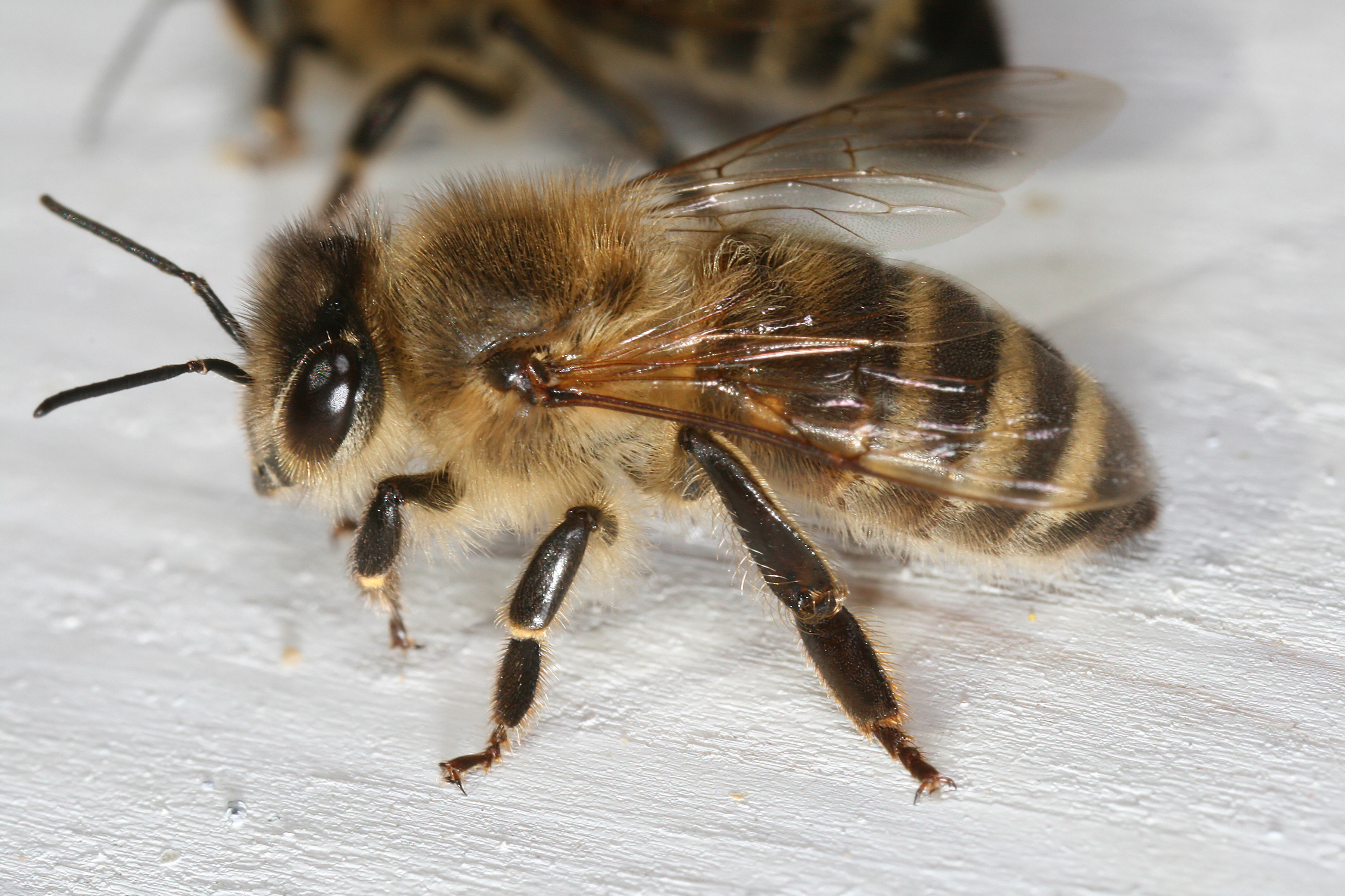 Description: The Carniolan honey bee (Apis mellifera carnica) is a subspecies of Western honey bee. It originates from Slovenia, but can now be found also in Austria, part of Hungary, Romania, Croatia, Bosnia and Herzegovina, and Serbia.